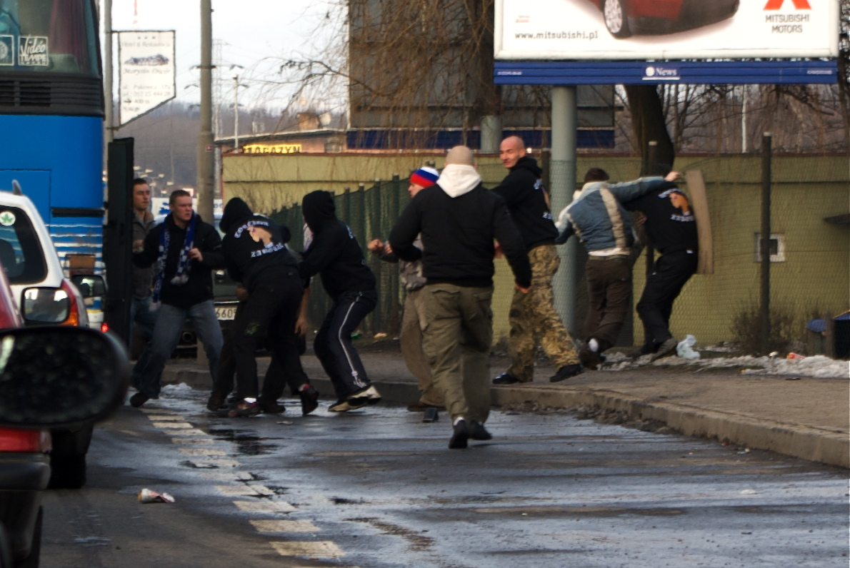 Zabrze fans fight with Chorzów fans in the street.